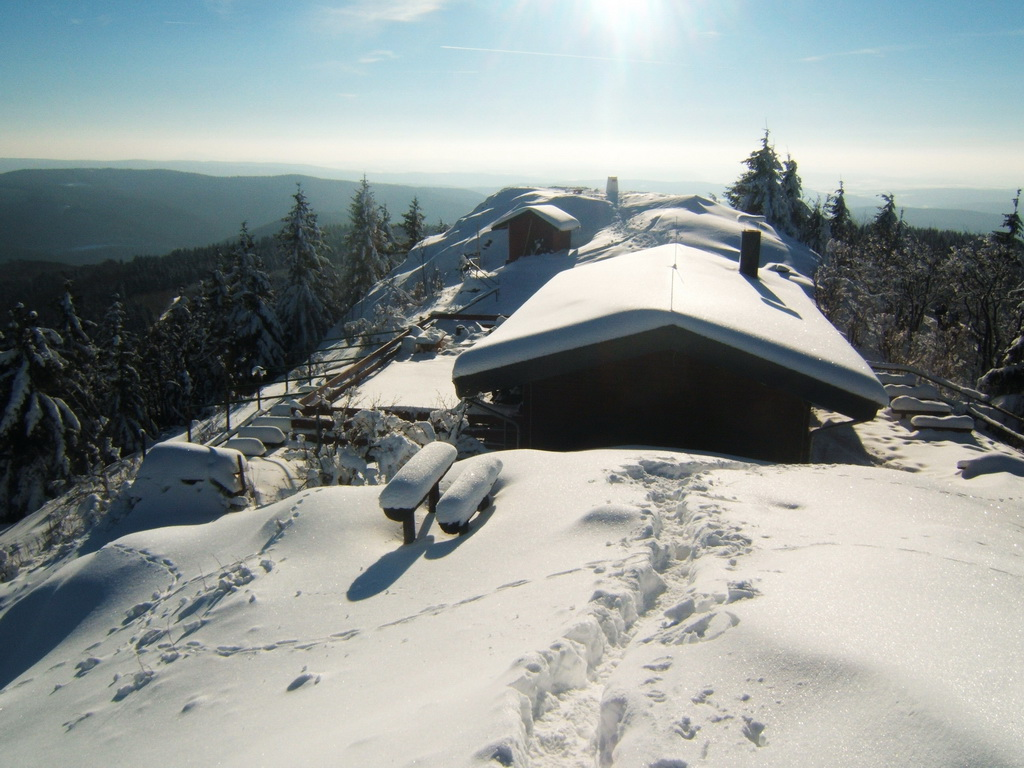 Overview over the Ruppberg near Zella-Mehlis, Thuringia, Germany